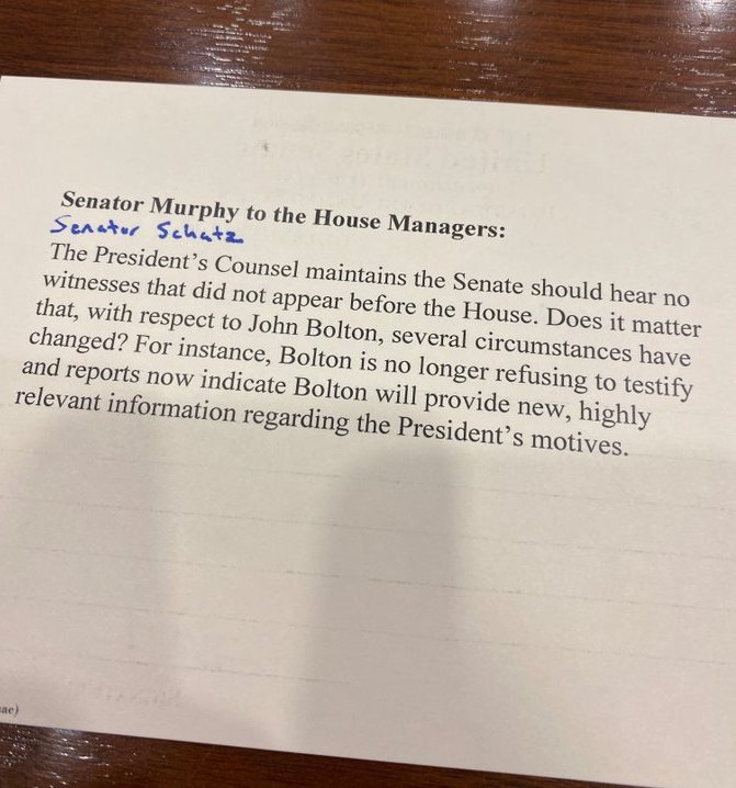 I gave my first question of the away to a Senator who hadn't asked a good one yet, and then by the time I wrote a new one I liked (on the importance of Bolton's testimony), the clock had run out (I was the next question up at adjournment). But here it is in case you care